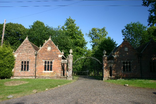 Entrance to Coldham Hall. A public footpath to Stanningfield uses the driveway to the Hall.